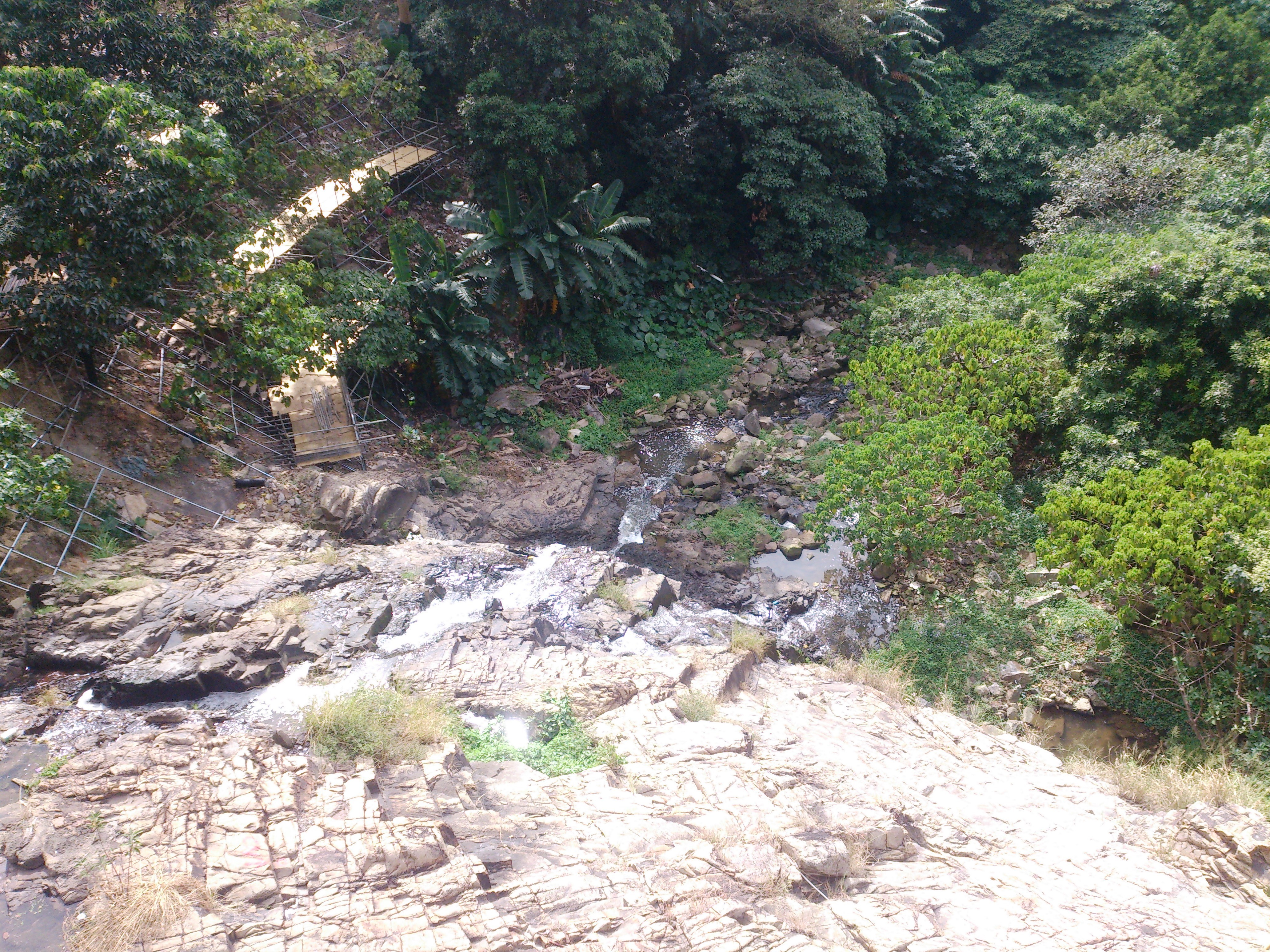 Pok Fu Lam Waterfall viewed from Victoria Road (lower side)